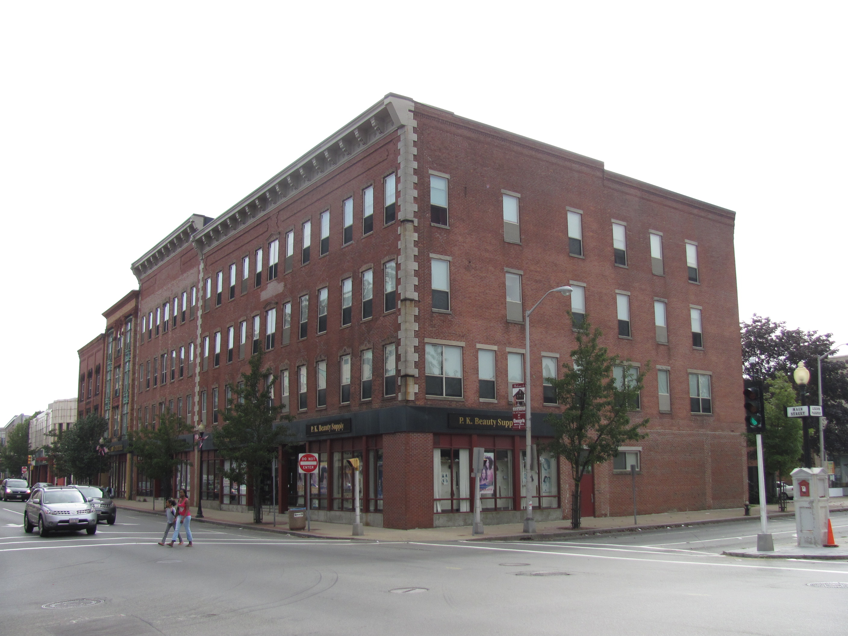 Lyman Block, 89 Main Street, Brockton Massachusetts